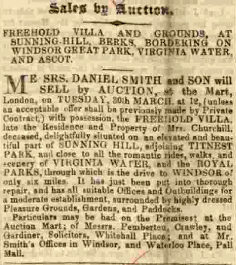 Sale notice of the Royal Berkshire Hotel in 1847